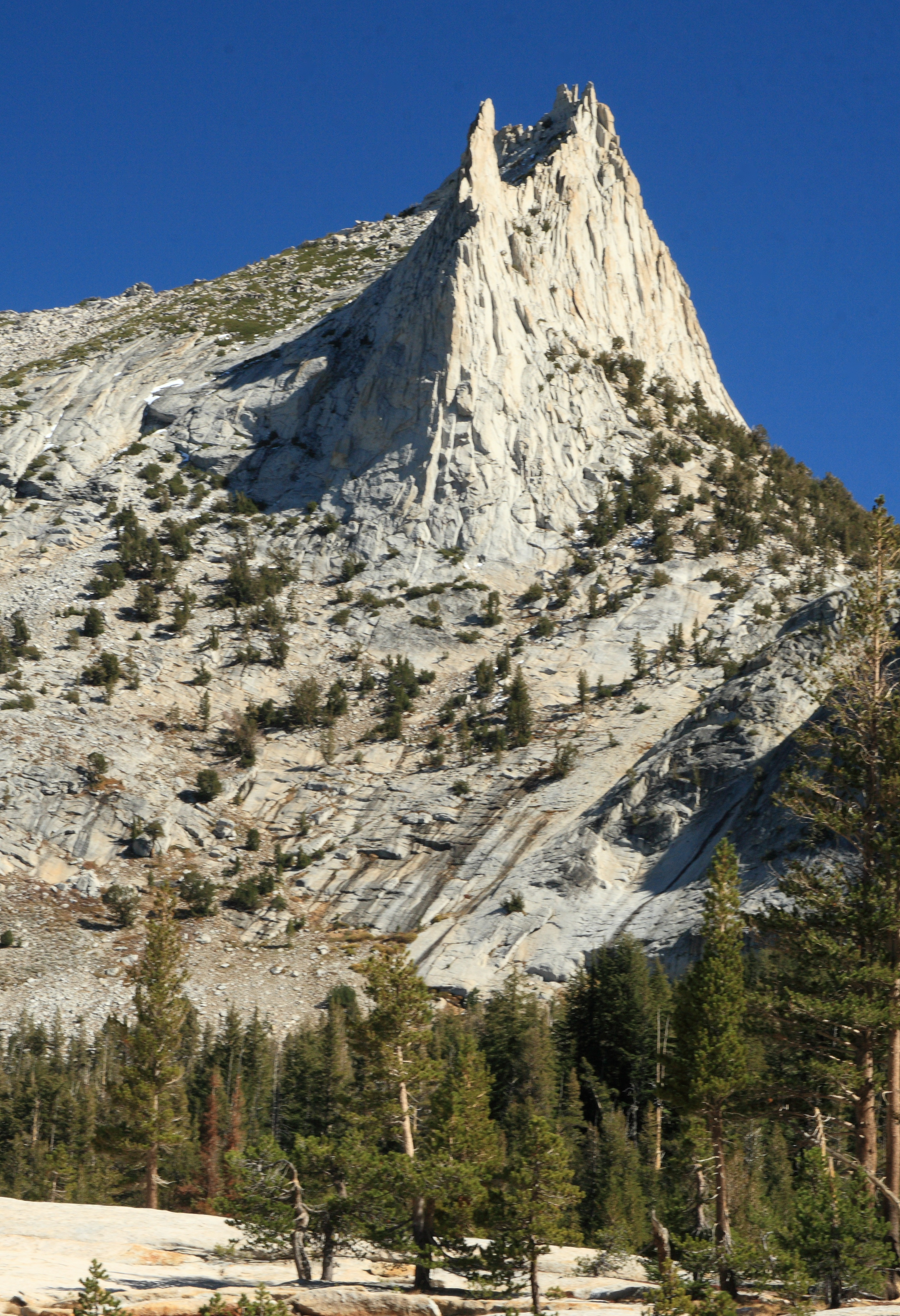 The spiny crown of Cathedral Peak, Yosemite National Park, California in October 2008.